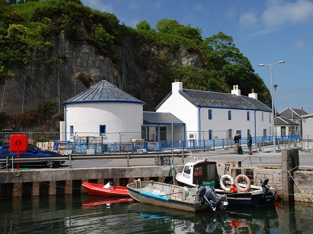 New ferry terminal buildings at Port Askaig The new ferry terminal buildings at Port Askaig are due for completion later this year.